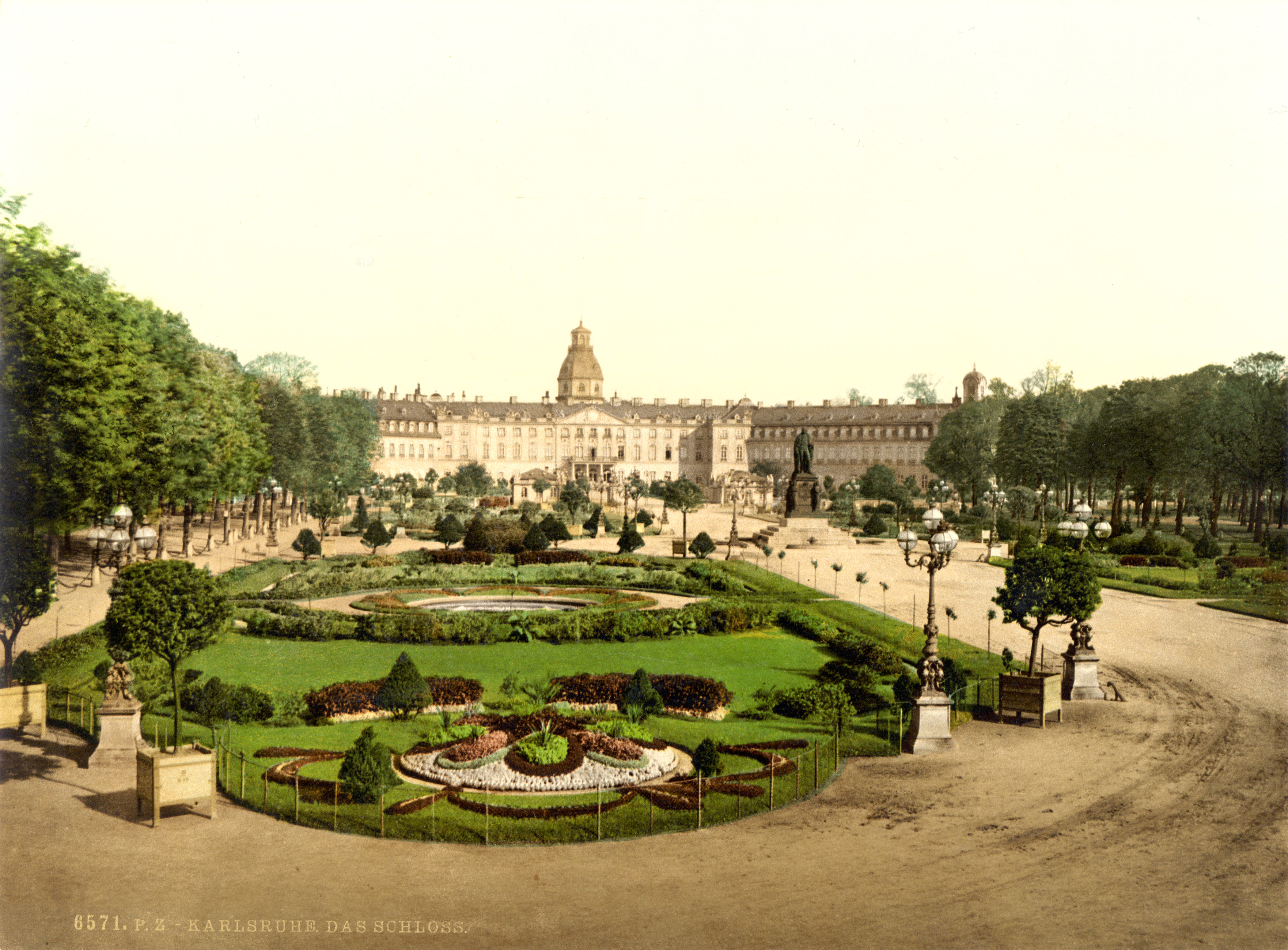 Photochrom print by Photoglob Zürich, between 1890 and 1900. From the Photochrom Prints Collection at the Library of Congress More photochroms from Germany | More photochrom prints [PD] This picture is in the public domain